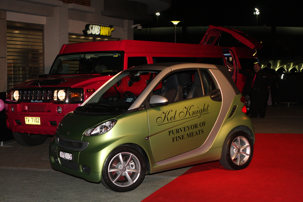 Kath & Kimderella movie premiere at Entertainment Quarter; Sydney, Australia Tonight the Australian "foxy moron" (Kath & Kim lingo) film enjoyed its Australian premiere at Entertainment Quarter in the shadow of Fox Studios Australia, Moore Park. The Kath & Kim franchise is well established and its usually a case of you either love them or hate them. Tonight there were hundreds of lovers of course. Some passionate fans dressed up as their idols - including some grown men in K&K drag. The girls at the premiere switched in and out of character, as they often do in news media interviews. The Flick... Kath, Kim and the latter's daggy offsider, Sharon (Magda Szubanski) are soon shipped off to Papilloma, a bankrupt principality in Italy, where the monarch, King Javier (Rob Sitch) mistakes Kath for a wealthy noble and plans to seduce her, while his son fixates on Kim as a princess. Plot... Fountain Lakes’ foxiest ladies turn more than just heads when they go on an OS trip and end up being the centre of their very own fairytale. Starring: Jane Turner, Gina Riley, Magda Szubanski, Glenn Robbins & Peter Rowsthorn. Director: Ted Emery Kath & Kimderella opens nationally Thursday, September 6. Websites Kath & Kimderella official website Kath & Kim official website Roadshow Films Eva Rinaldi Photography Flickr Eva Rinaldi Photography Music News Australia